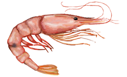 Pink shrimp, Farfantepenaeus duorarum